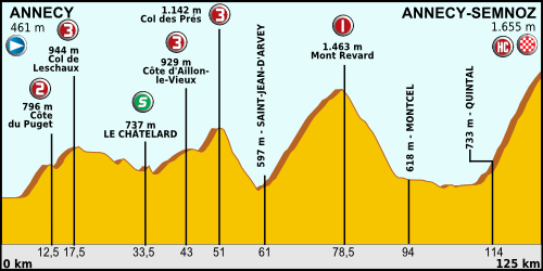 Tour de France 2013 - Profile Stage No. 20